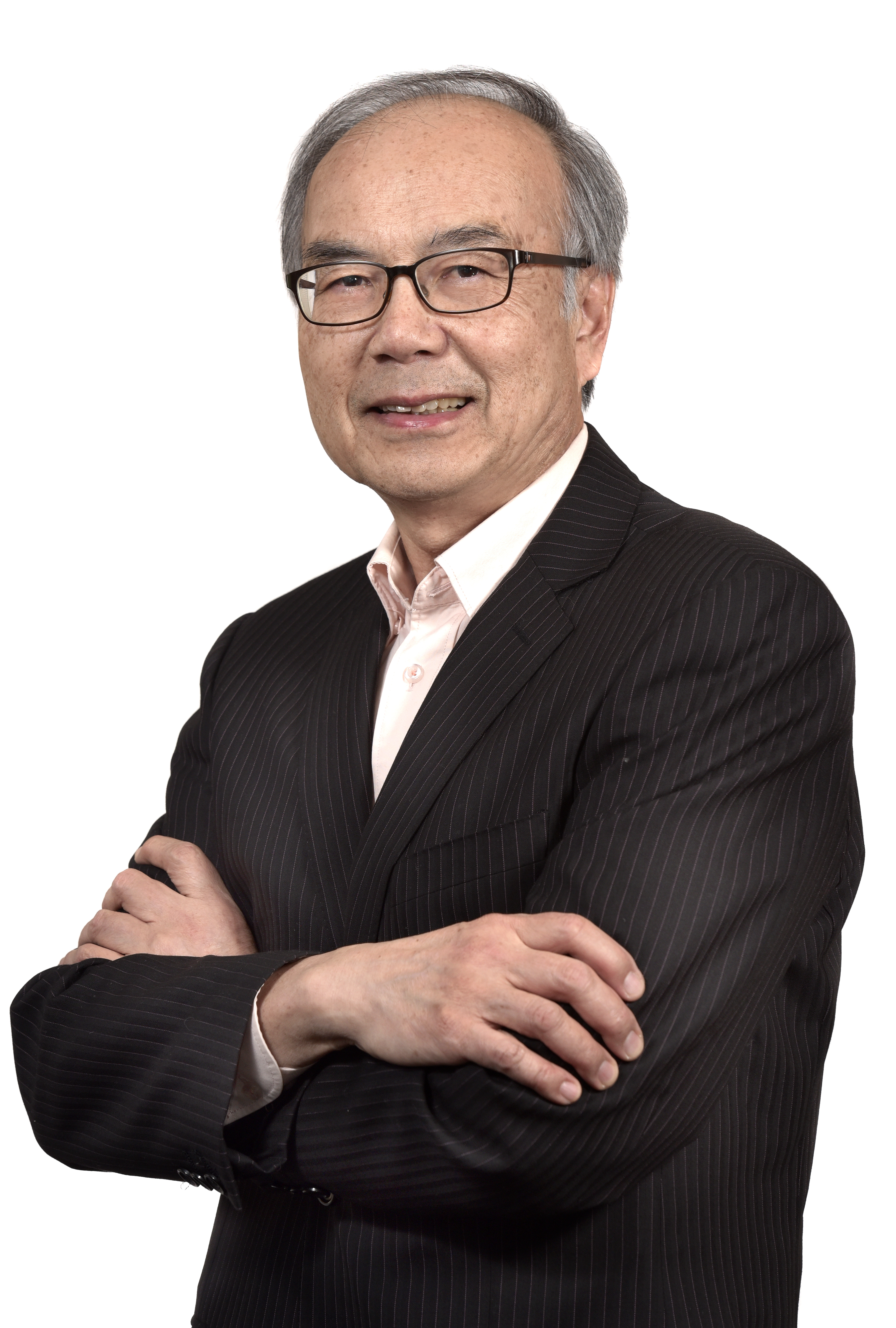 MLA George Chow